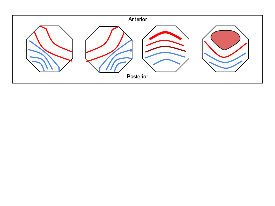 Representation of a typical 4-class EEG Microstate topography sequence. Opposing polarity is represented by the arbitrarily designated colors.